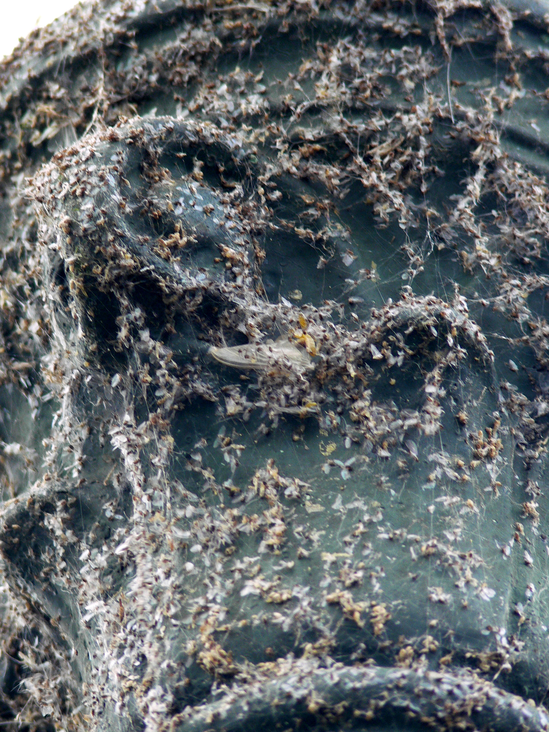 Briare canal bridge over the Loire (France). Basement of light = also example of impact of "light pollution" on the Loire River (which is often described as the last wild river in France). More lights are close to the center of the Loire (on the bridge that crosses it at right angles), the more lights attract insects at night just emerging from the water (rem: Some of these insects (Trichoptera sp., Plecoptera sp. including Ephemeroptera) are regarded as "bioindicators" indicating good water quality, and are rapidly declining in France since the early twentieth century). On this bridge, the further away to the right or left banks of the river Loire, under the lights attract insects. The amount of cobwebs (Spider web), the number and size of spiders and the number of bodies of insects are clues to the amount of trapped insects and, since every morning wasps come - sometimes hundreds - "steal" the spiders on their web, part of dead insects they were killed and stored in a sheath of silk in the night. Because of the heat lamps and their intensity, these spiders have an abnormally prolyxe food, and they are unusually numerous. This phenomenon seems to be what ecologists call a "green shaft". Bats and fishes could also be perturbed by this light.